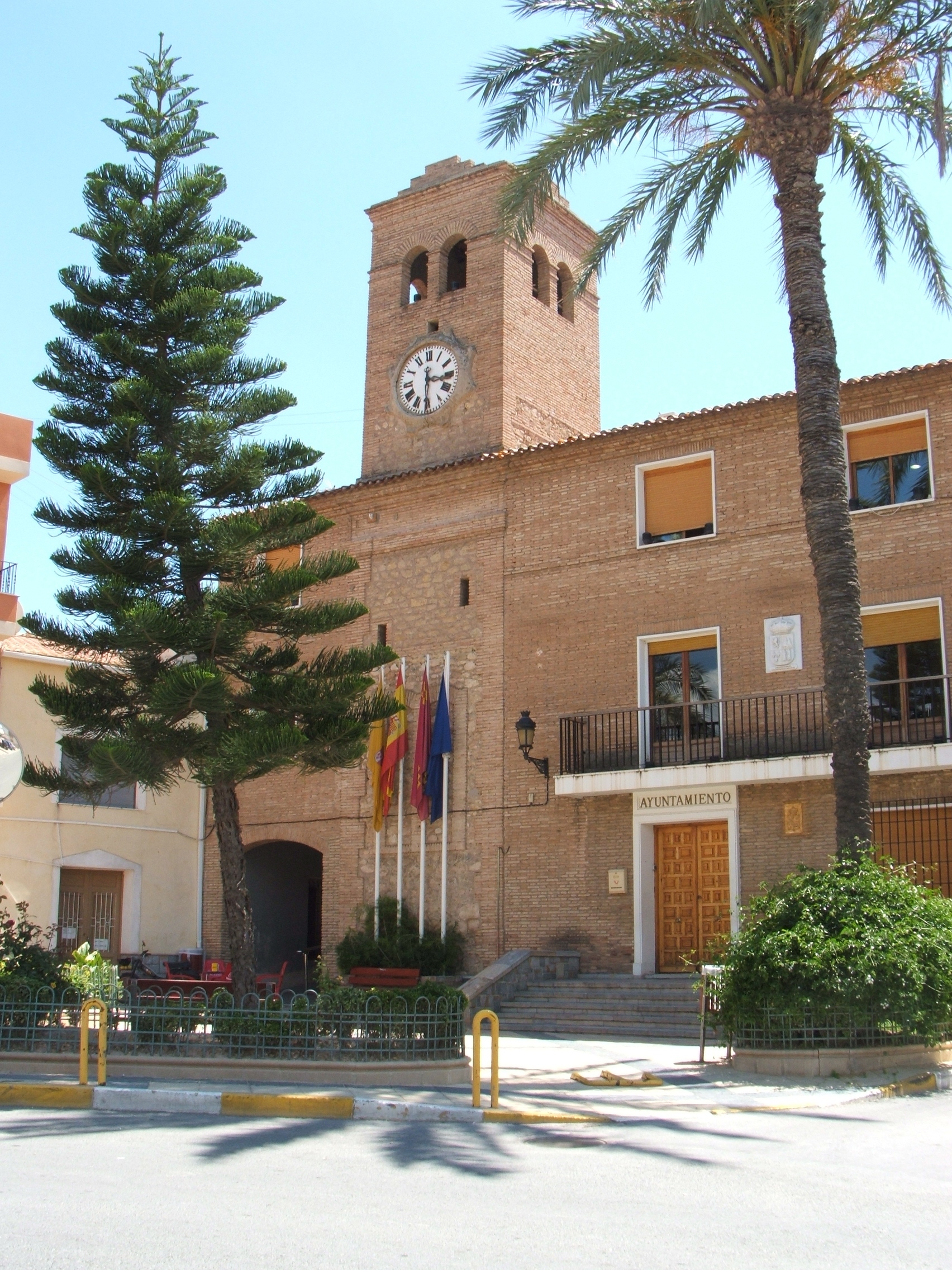 Photo of the town hall of Librilla